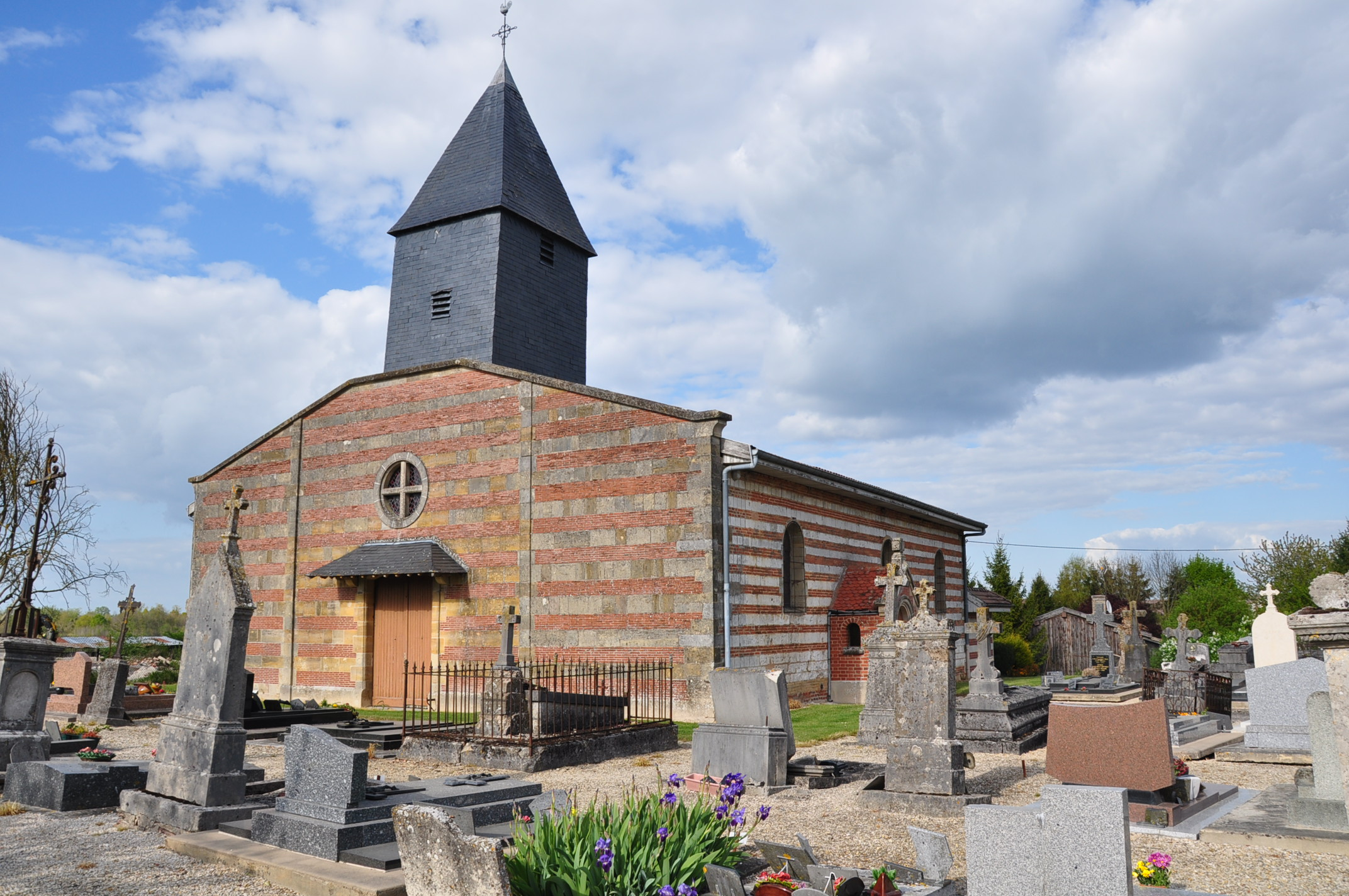 The church of Sivry (municipality Sivry-Ante, Marne department, Champagne-Ardenne region, France).